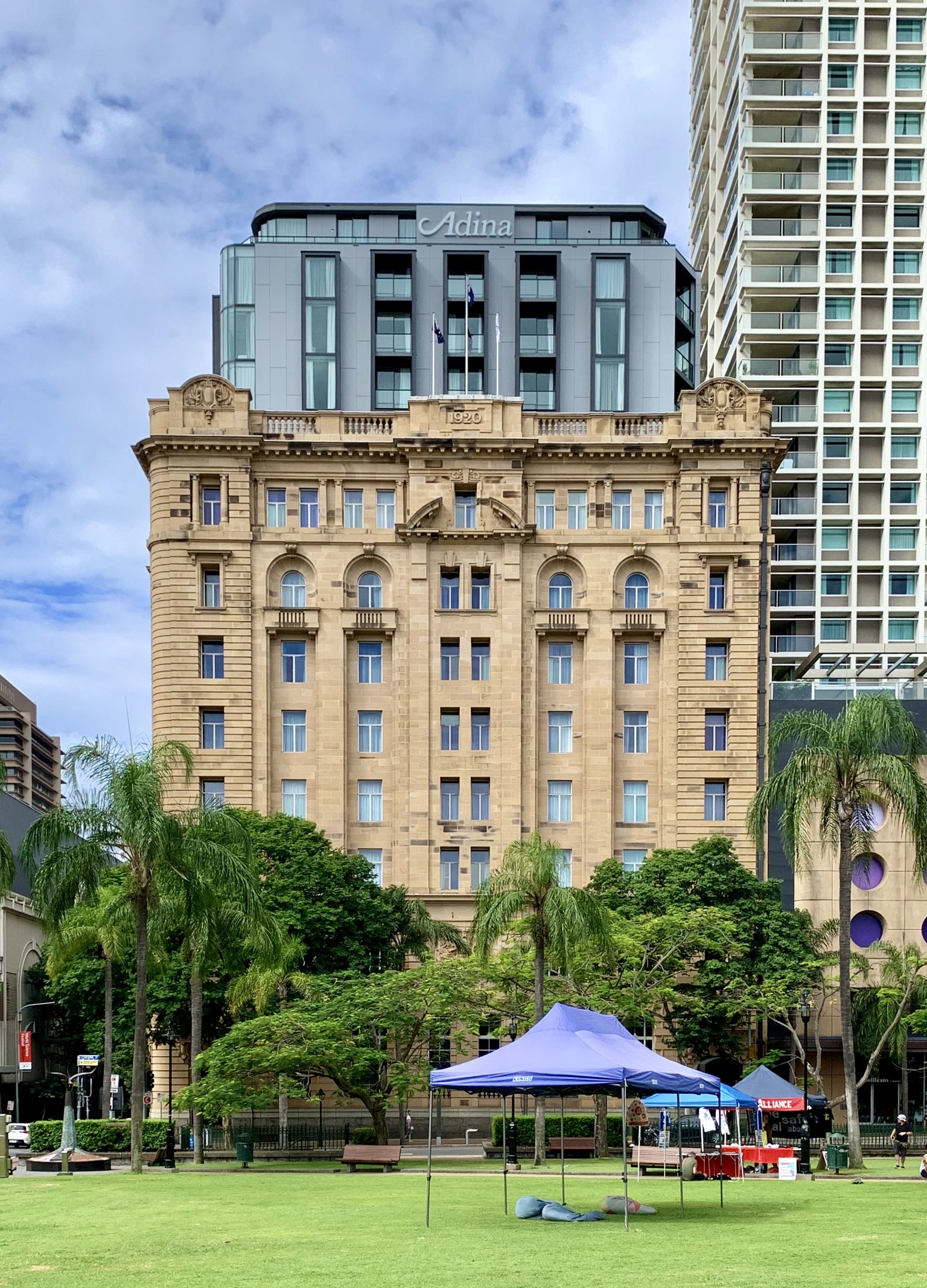 The Family Services Building, converted into Adina Apartment Hotel, Brisbane